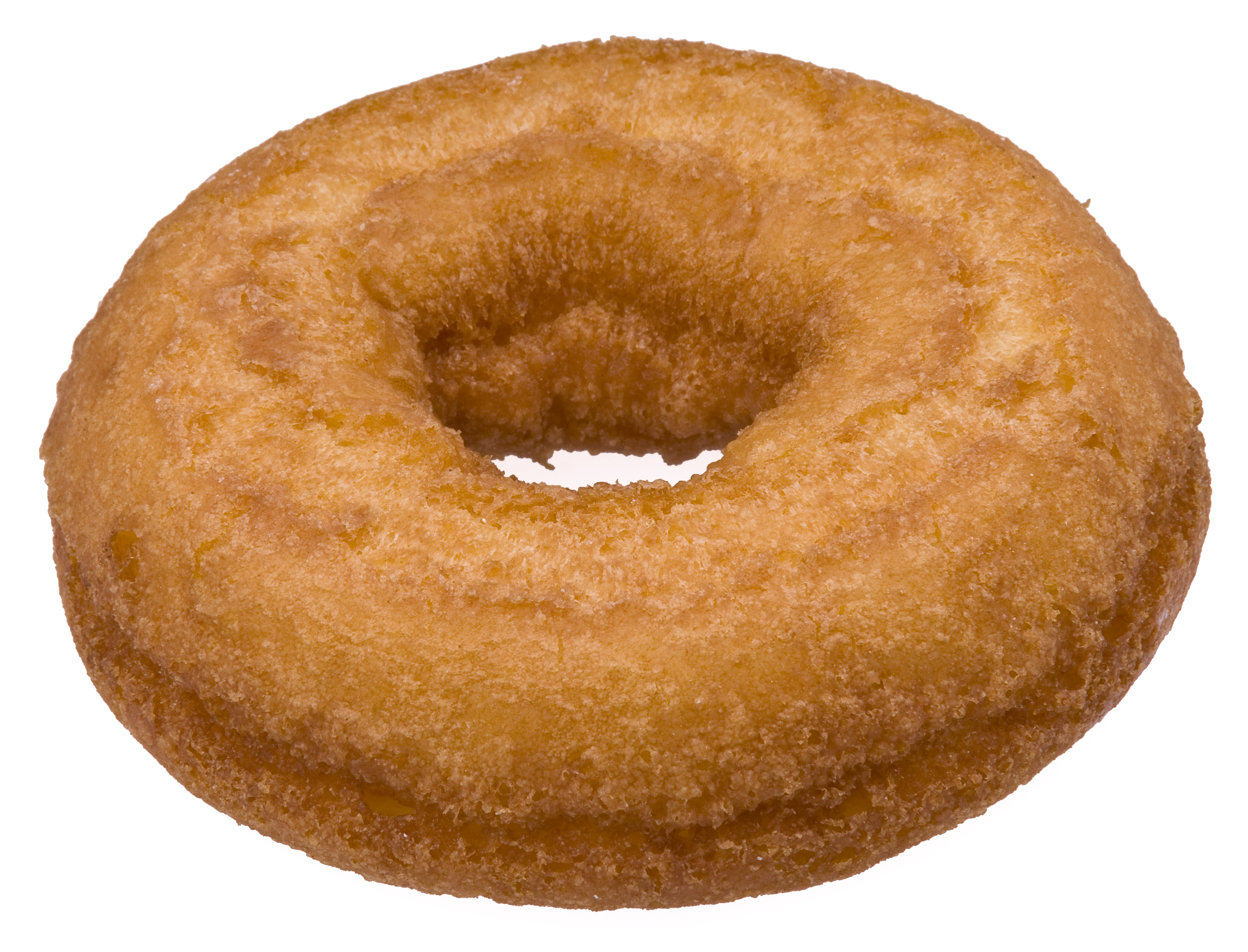 An Entennmann's cake donut, bought from a grocery store four-variety pack.